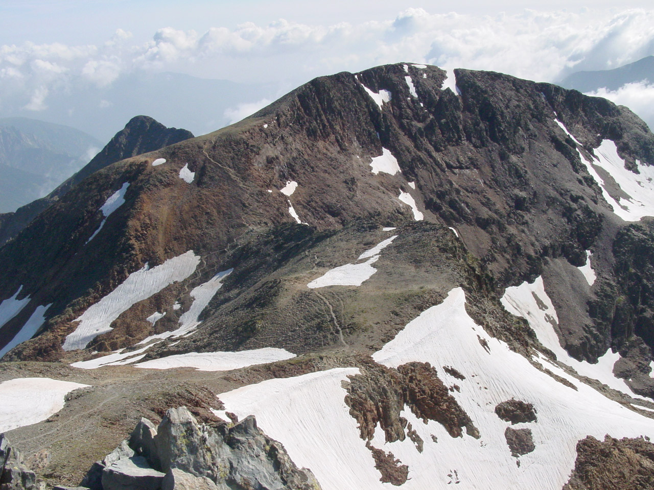 Pic du Montcalm from Pica d'Estats in July 2004. Photograph taken by David Edgar.